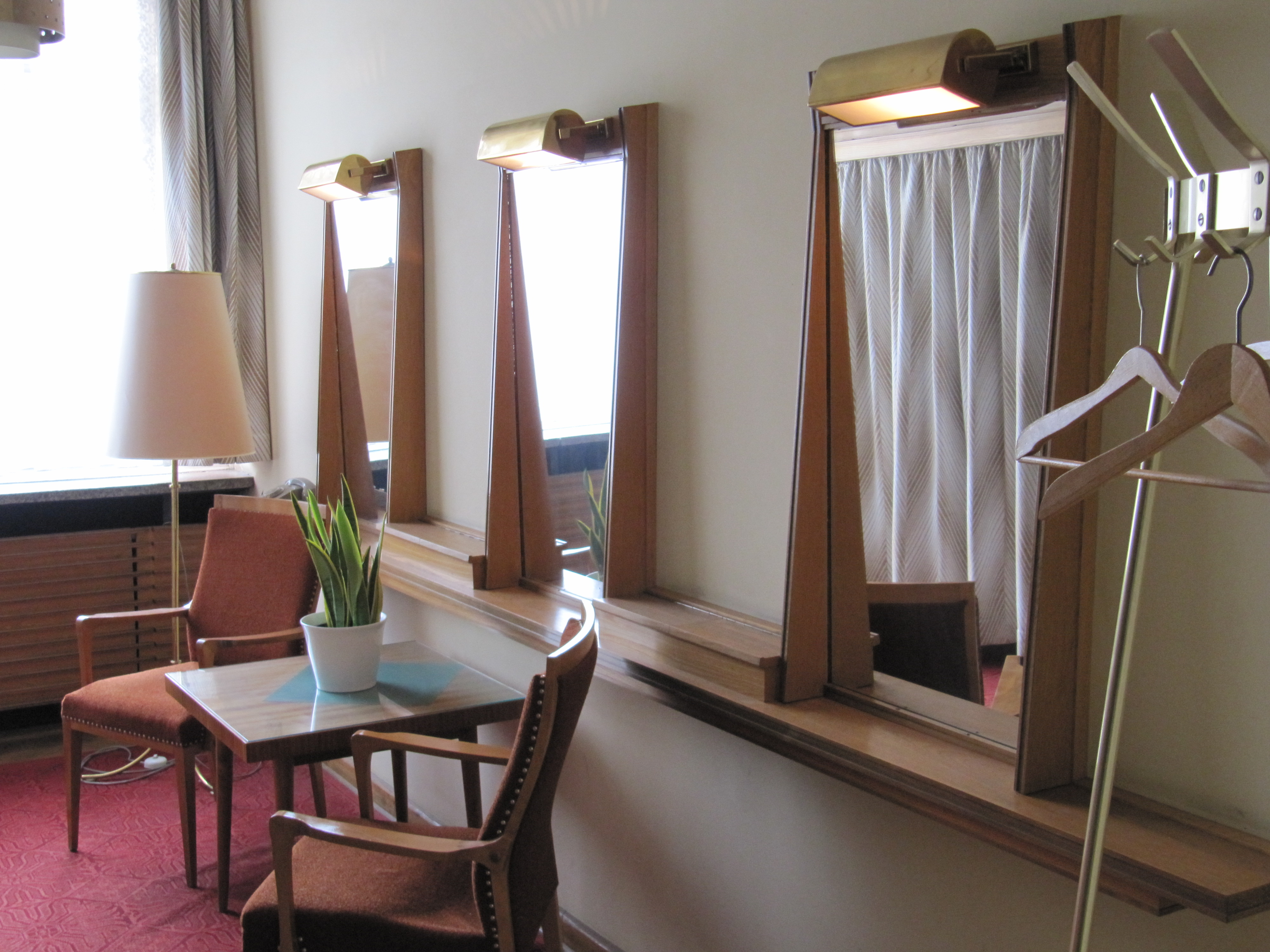 Wardrobe in connection with conferenceroom in Stasi-central i Berlin-Lichtenberg